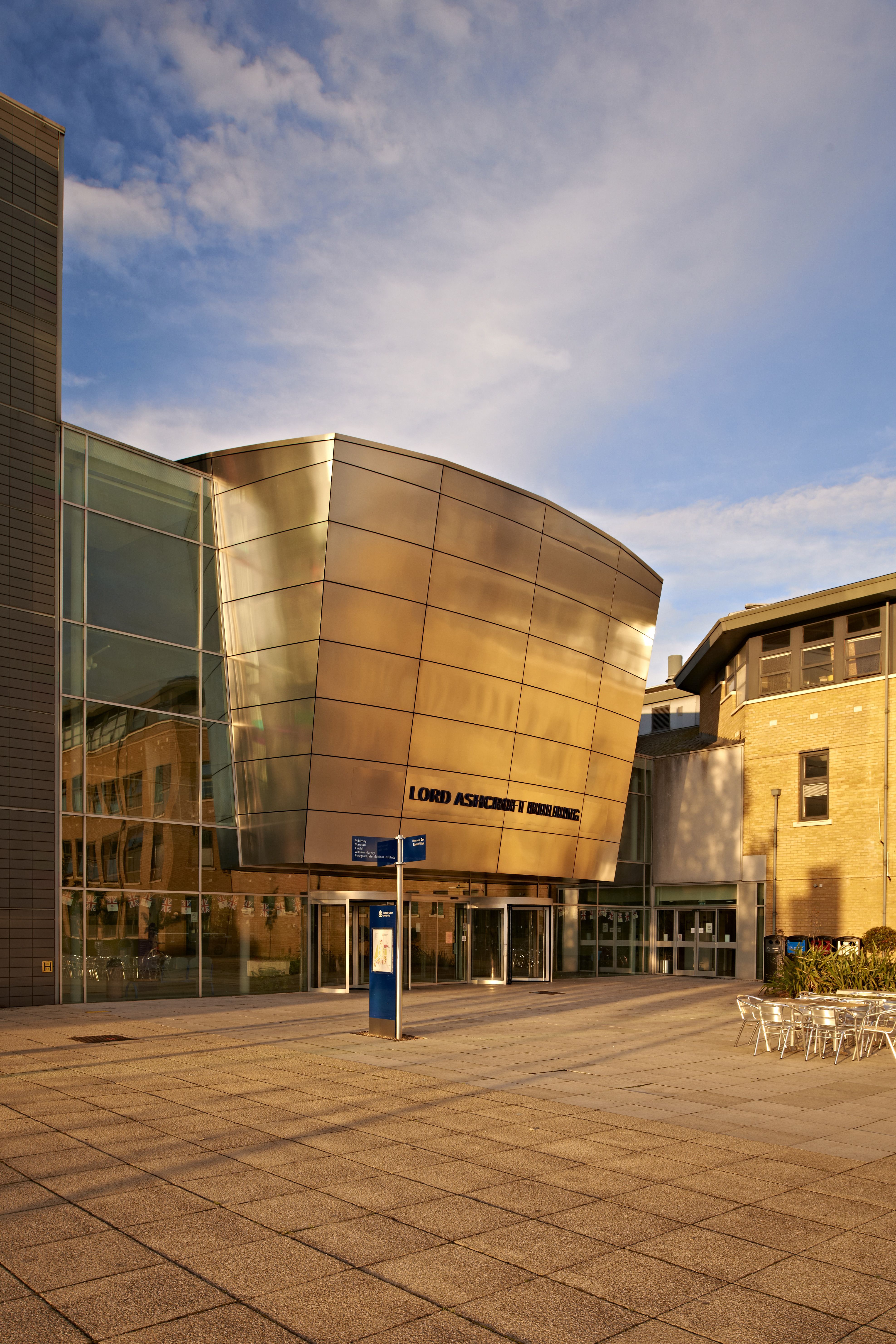 Lord Ashcroft building at Anglia Ruskin University, Chelmsford campus